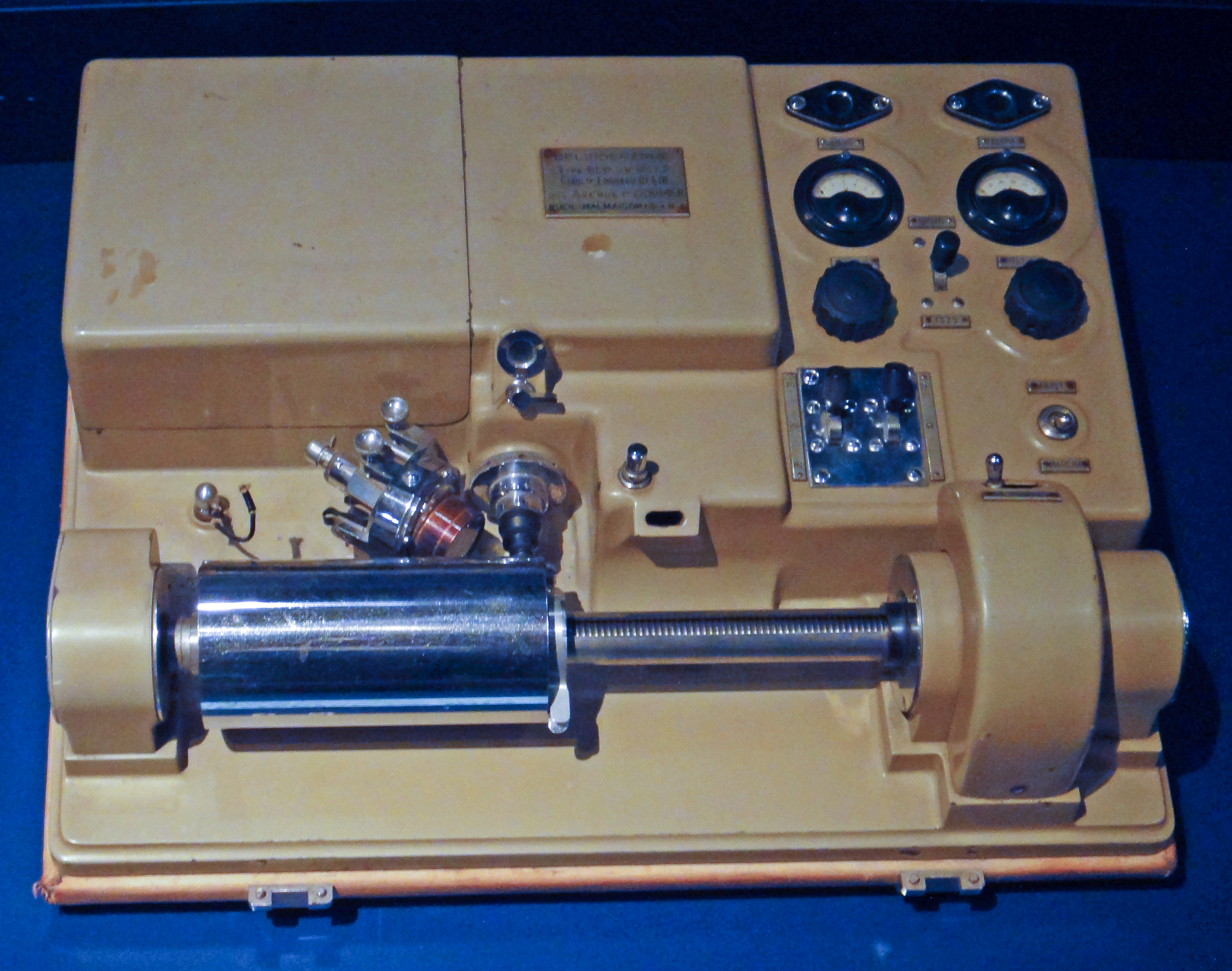 Belinograph BEP-2V telephotograph, Édouard Belin, 1953.